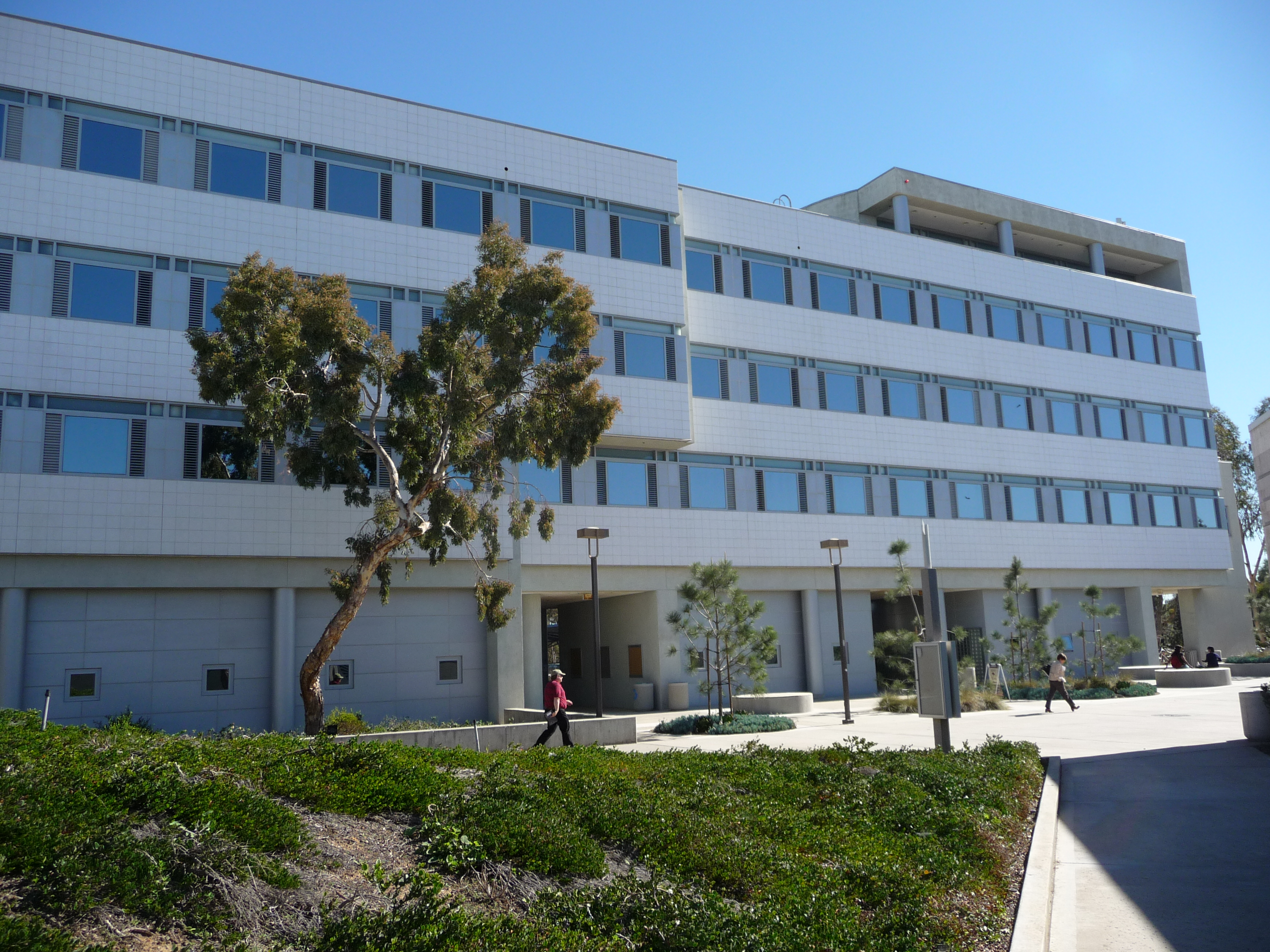 The Social Sciences Building in Roosevelt College at UCSD.